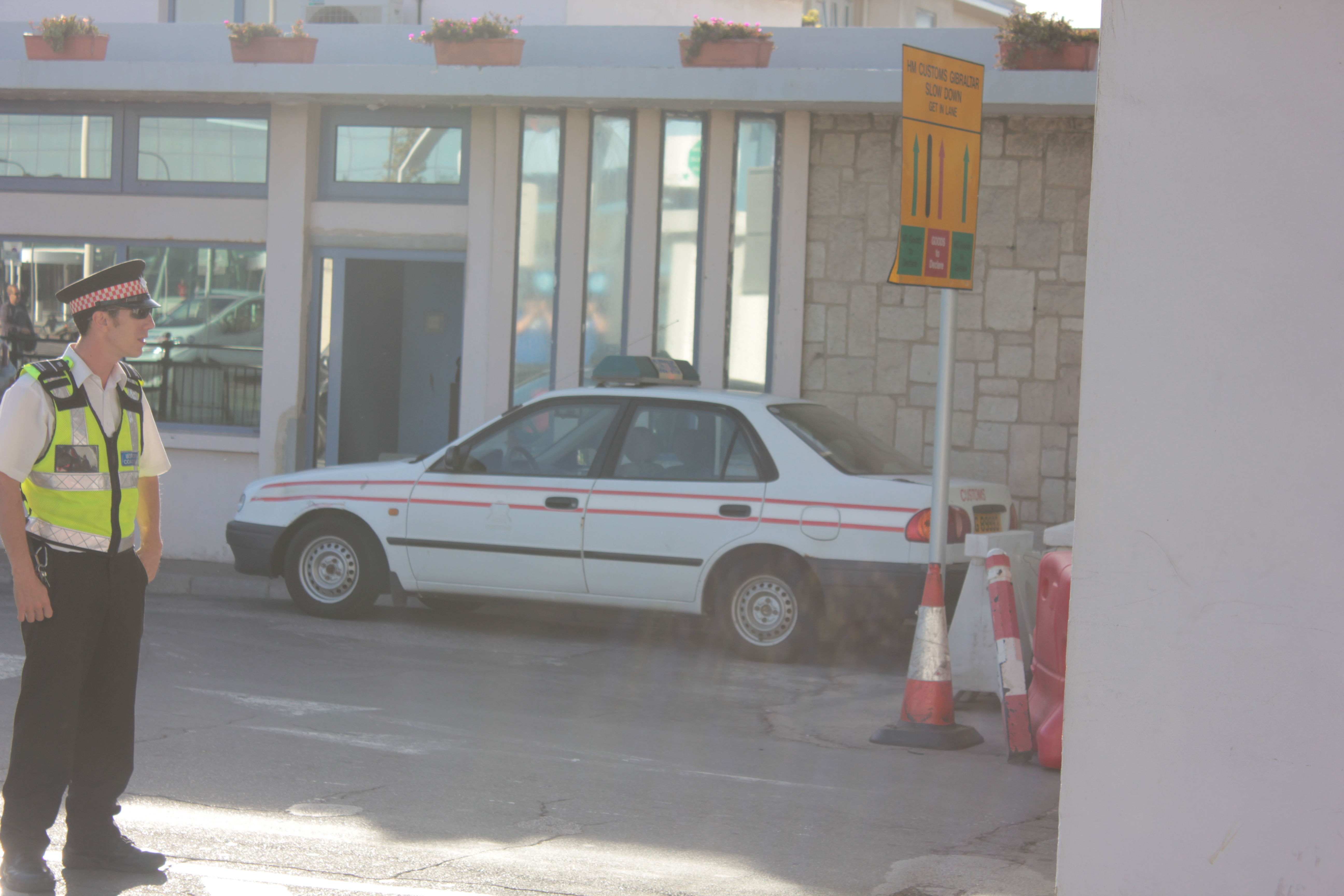 A car belonging to HM Customs, Gibraltar and a Gibraltar Highways Enforcement officer near the Spanish border